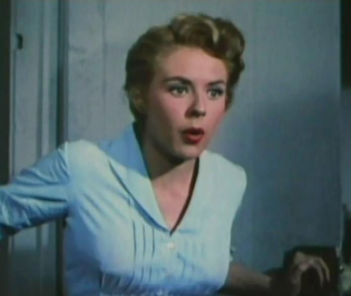 Mala Powers in Rage at Dawn - cropped screenshot.